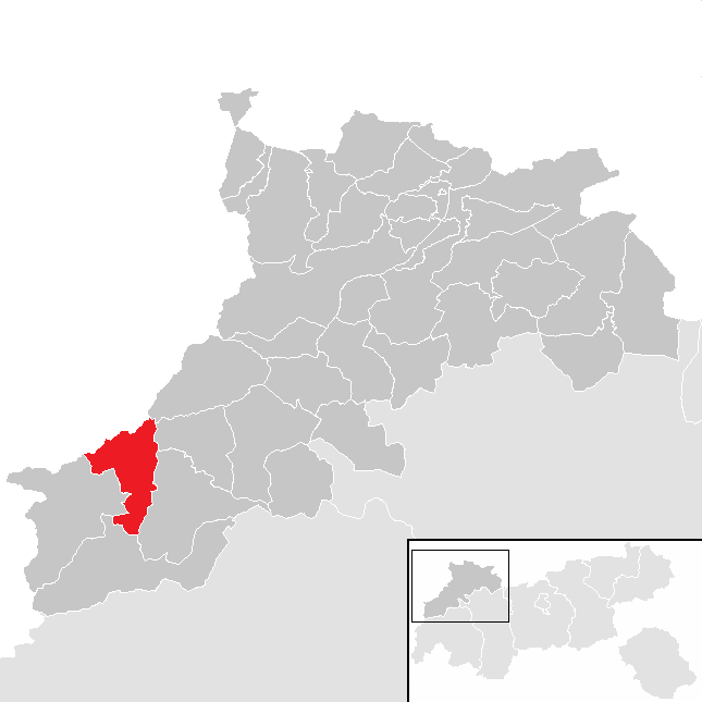 District Reutte